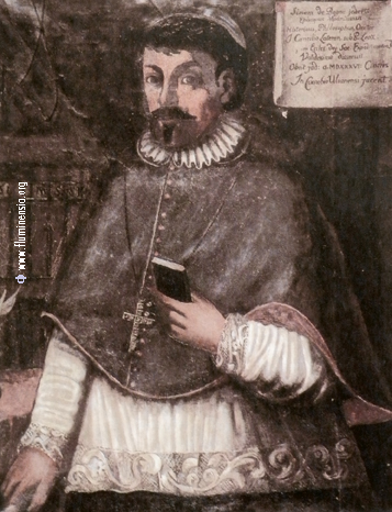 Šimun Kožičić - Benja (Simon Begnius, 1460-1536) bishop of Modruš in Croatia and publisher of more Slav (glagolica) books.